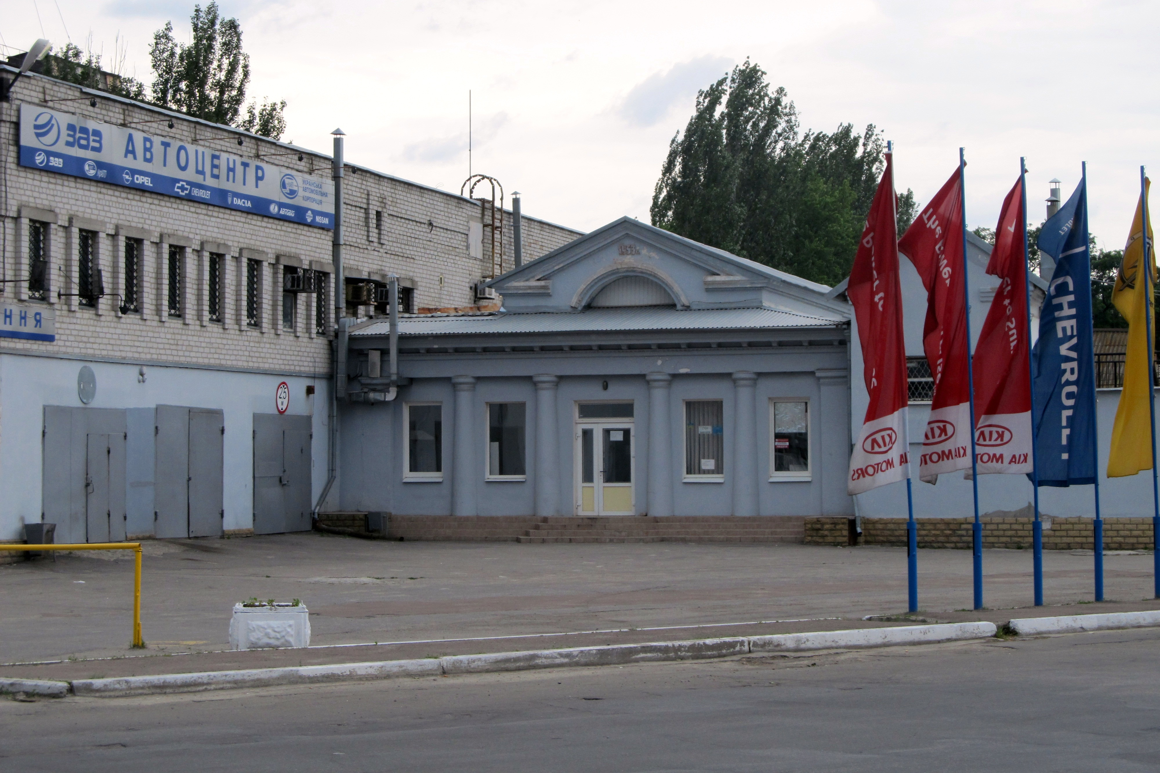 Lomonosova Str., Melitopol, Zaporizhia Oblast, Ukraine.